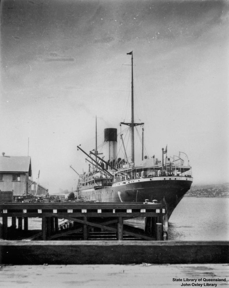 Blue Funnel Line's 10,048 GRT refrigerated cargo ship Ascanius moored at a wharf.